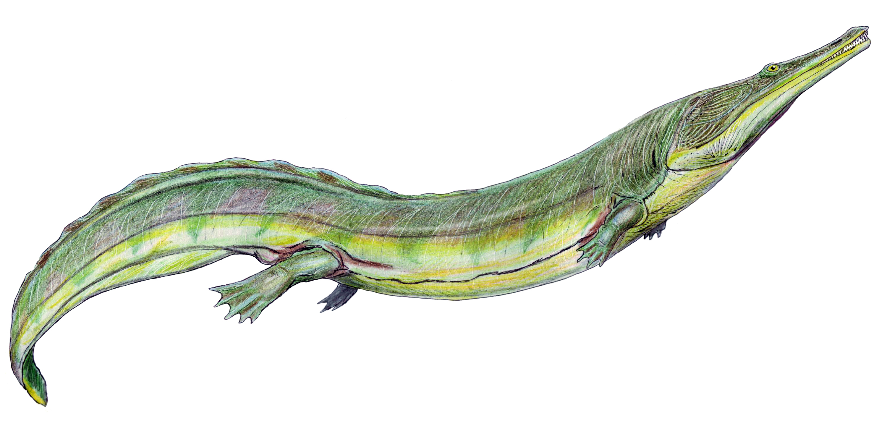 Trematosaurus brauni - trematosaurid from Early Triassic of Germany